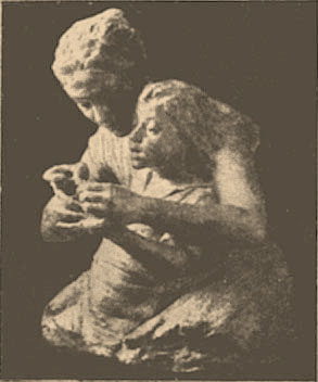 Illustration from Brockhaus and Efron Jewish Encyclopedia (1906—1913)